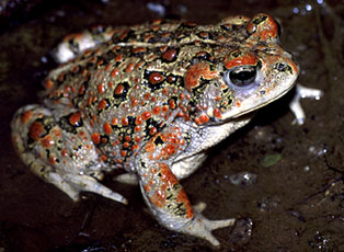 Bufo boreas